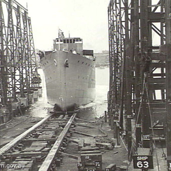 AWM Caption: Australia: New South Wales, Sydney, Morts Dock. 1942-03-07. LAUNCHING OF H.M.A.S. DUBBO. OFFICIAL GROUP AT LAUNCHING. THE MAYOR OF DUBBO (MR. E. SARISIER) COMMODORE MUIRHEAD-GOULD, REV. A. RIX, WHO PERFORMED THE DEDICATION CEREMONY, SIR KELSO KING, AND THE TOWN CLERK OF DUBBO (MR. M. MATTHEWS).